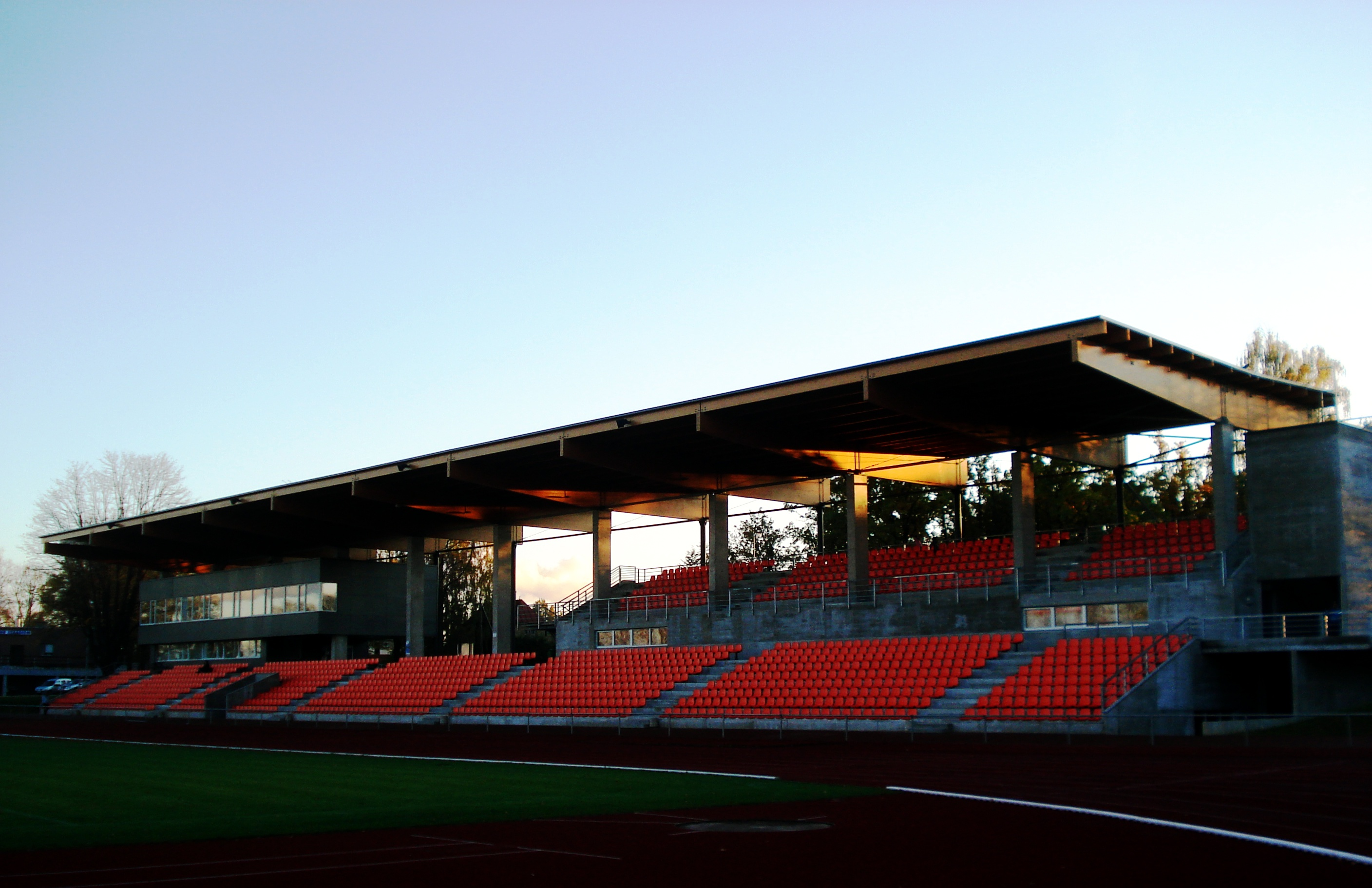 Tamme Stadium in Tartu.